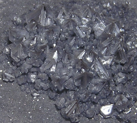 AgCl, recrystallised from ammonia solution. Grey tint and metallic luster are due to partly reduced silver. Background fine crystals are AgCl as well.